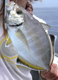 Carangoides equula, Fiji